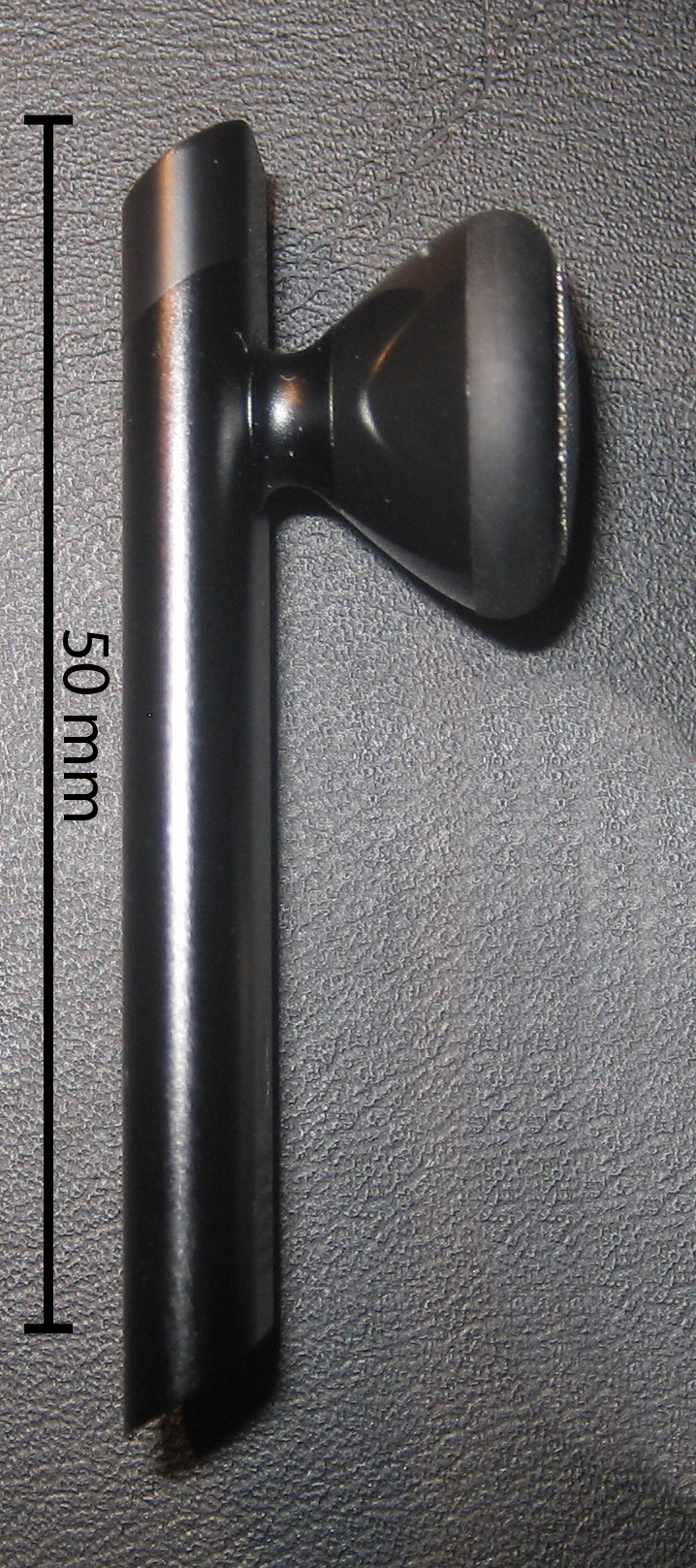 modified Version of Image:IPhoneBluetoothHeadsetQuarter.JPG with mm scale instead of coin